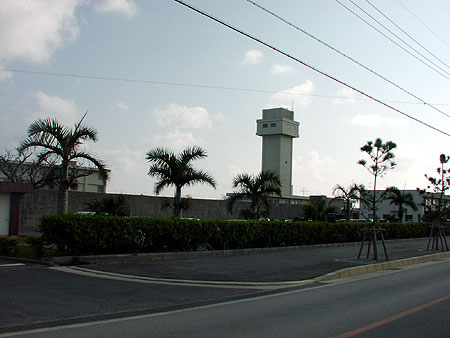 Okinawa Prison